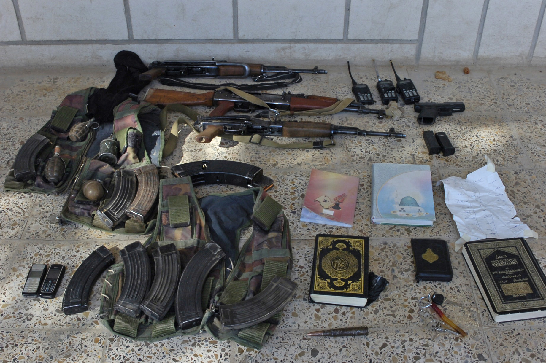 VIRIN: 071029-A-5850B-649 Location: Hussein Hamadi, IQ Three AK-47s, about 15 full AK-47s magazines, a RPK rifle, one pistol and several grenades were taken from an al-Qaida in Iraq safehouse south of Hussein Hamadi village, Diyala province, Iraq, that was raided by coalition forces, Oct. 29, during Operation Ultra Magnus. Associated News: Ultra Magnus Clears Al-Qaida From Former Diyala Province Stronghold